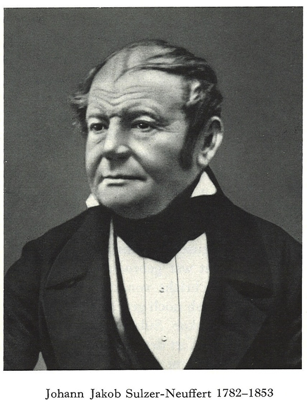 Johann Jakob Sulzer-Neuffert